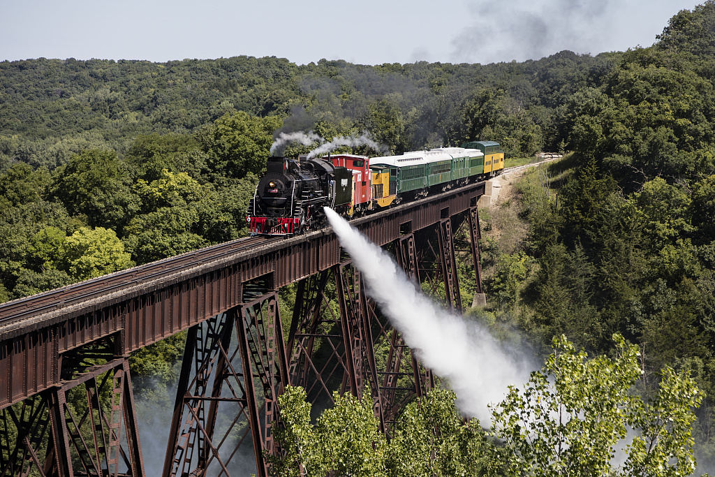 A steam train operated by the Boone & Scenic Valley Railroad, a heritage railroad that operates excursions in Boone County, Iowa, crosses the 156-foot-tall Bass Point Creek Bridge. The railroad was started in 1983 by a group of volunteers who wanted to preserve a scenic section of the former Fort Dodge, Des Moines and Southern Railroad. In 1983, an eleven-mile section of the line was purchased by the Boone Railroad Historical Society and its 2254 charter members for $50,000. This stretch of track, winding through the Des Moines River Valley, includes a 156-foot-tall bridge spanning Bass Point Creek. The line runs from Boone through the old coal mining town of Fraser and ends at the site of the former junction with the Minneapolis & St. Louis Railway at the town of Wolf. Library of Congress Prints and Photographs Division: Medium: 1 photograph : digital, tiff file, color. Reproduction Number: LC-DIG-highsm-39355 (original digital file) Call Number: LC-DIG-highsm- 39355 (ONLINE) [P&P]